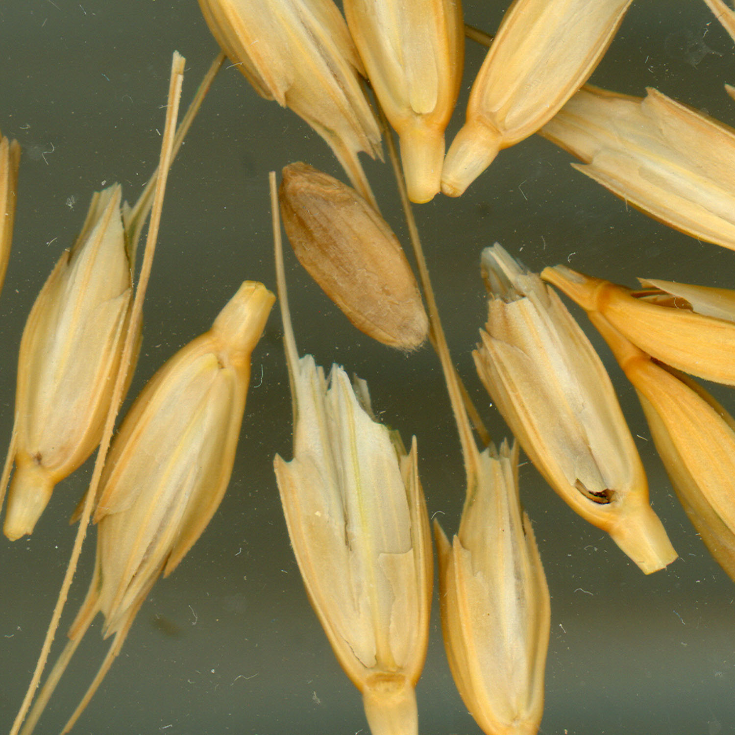 Triticum monococcum Spikelets PI 10474 Triticum monococcum subsp. monococcum POACEAE Cultivar name: EINKORN. Collected in: Thuringia, Germany